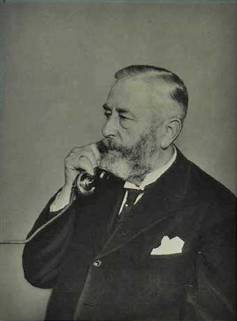 Danish engineer, director of the Danish Copenhagen-based telephone company KTAS and politician Fritz Johannsen (1855-1934, real name: Frederik Ferdinand Wilhelm Johannsen).